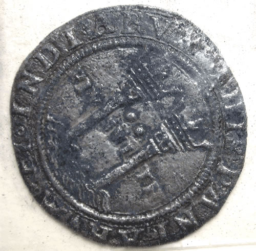 Spanish coin found at Padre Island National Seashore, from the 1554 wrecks